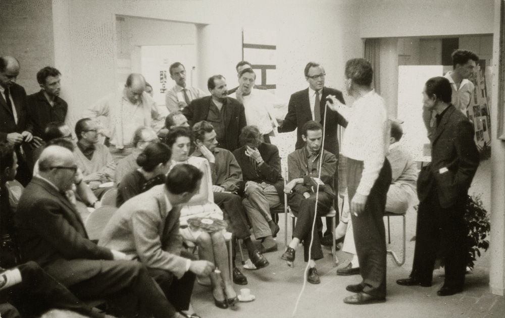 Otterlo Meeting 1959, (also CIAM '59), organised by Team 10. Meeting place, Kröller-Müller Museum, located in the Hoge Veluwe National Park, 43 participants. Dissolution of the organisation CIAM (Congrès International d'Architecture Moderne). Photo, from left to right: Peter Smithson 0,27 / Jacob Bakema 0,29 / Alison Smithson 0,36 / Georges Candilis 0,43 / Shadrach Woods 0,49 / Aldo van Eyck 0,50 / Giancarlo de Carlo 0,63 / Kenzo Tange 0,88. (Photographer unknown) NAi Collection, TTEN Translation of the Dutch commentary: In 1959 the Netherlands was the stage of world history, when a small group of young architects dispensed with the prestigious Congrès Internationaux d’Architecture Moderne (CIAM). This new generation found the rational approach of CIAM adherents overly one-sided. With J.B. Bakema as chairman, this small international vanguard championed a humane architecture. In Otterlo the group formulated a new, influential ideology that takes human relations as the basis for architecture and urban planning. In Otterlo, the Team 10 ‘dwarf’ dealt the fatal blow to the CIAM ‘giant’.